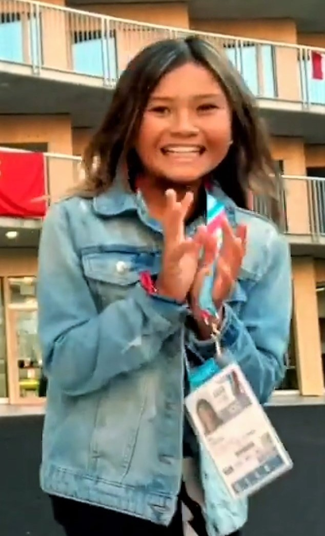 Inside the Youth Olympic Village #Lausanne2020 + Sky Brown pop in!